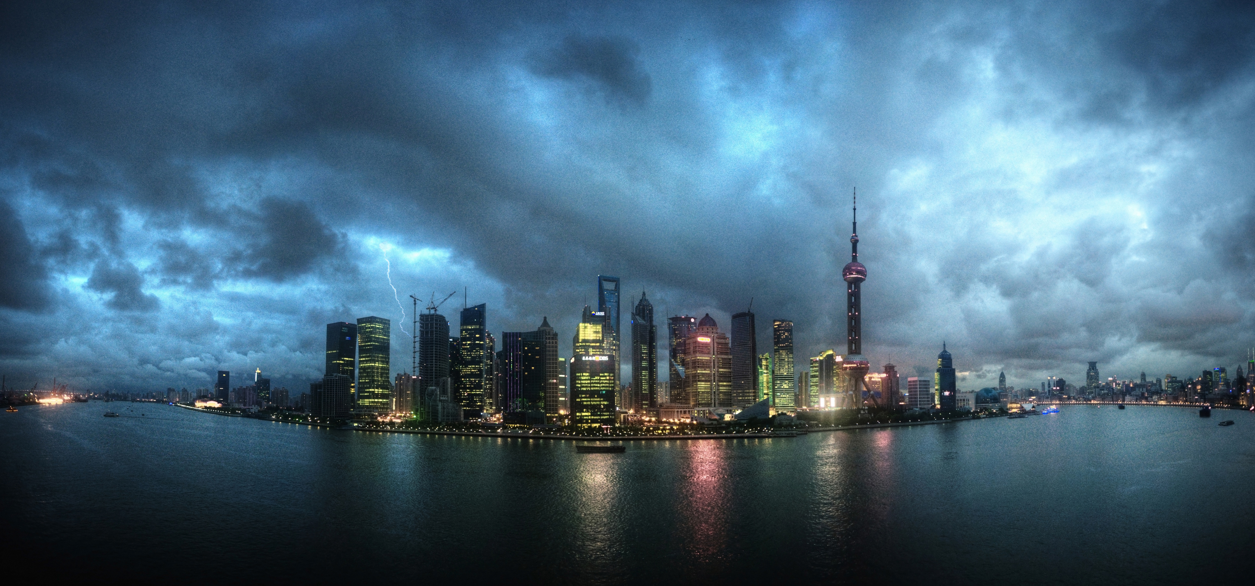 Panoramic skyline at night, Shanghai, China, East Asia.